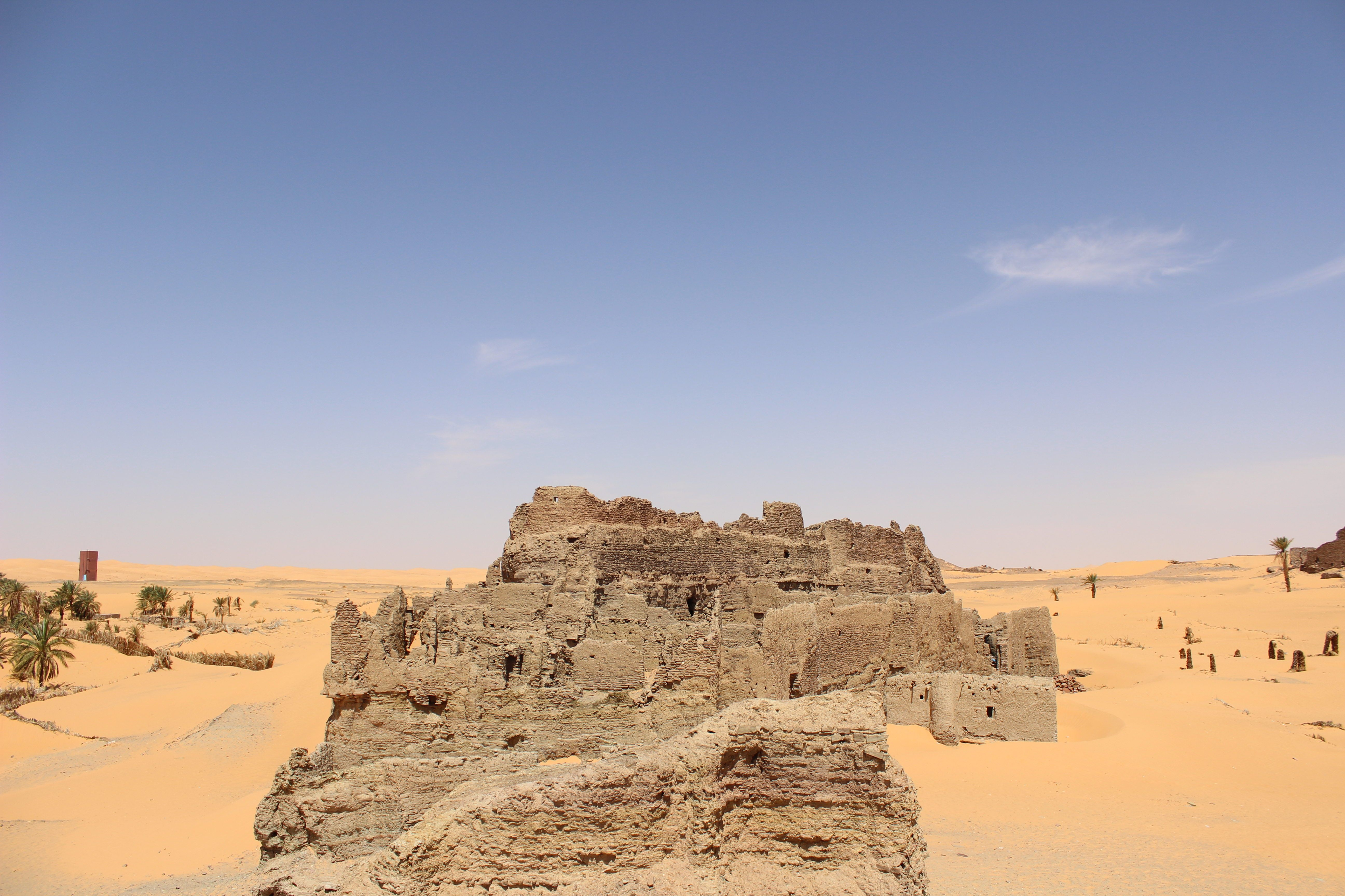 Ksar of Aghlad, (a Ksar -which means castle in Algerian current speaking- was a structure where a tribe used to live)